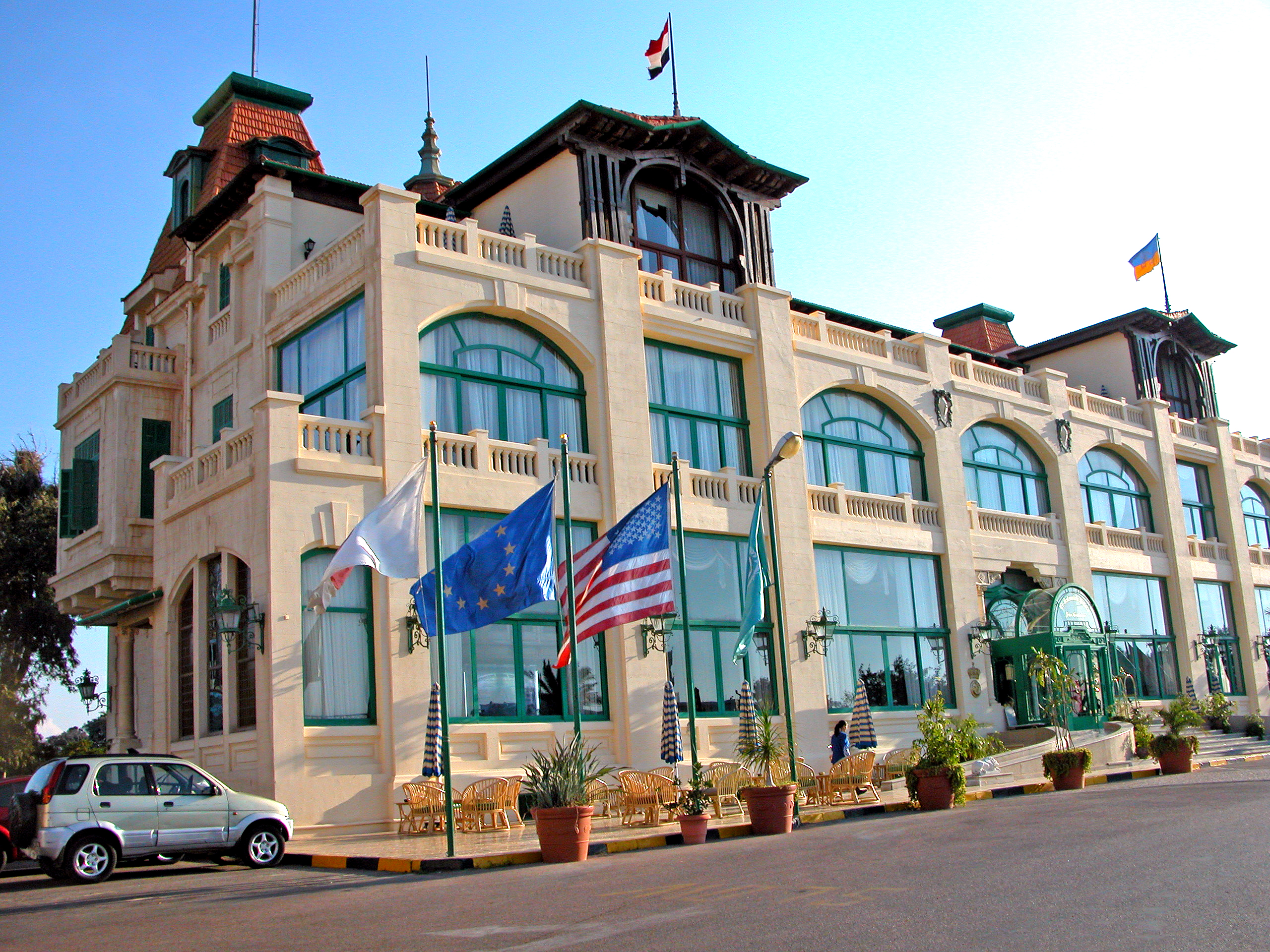 Salamlek Palace Hotel - Montazah Bay , Egypt His Majesty Khedive Abbas Helmi II had this building constructed as a hunting lodge in 1892, it is now a hotel. It is located on a hill overlooking the Mediterranean Sea in Montazah Bay and close to the Montazah Palace which is often used by the President of Egypt today for meeting with world leaders.